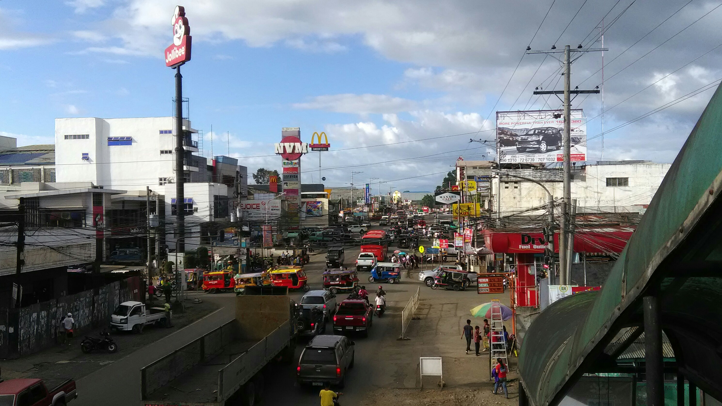 Intersection of Sayre Highway- G. Lavina Avenue